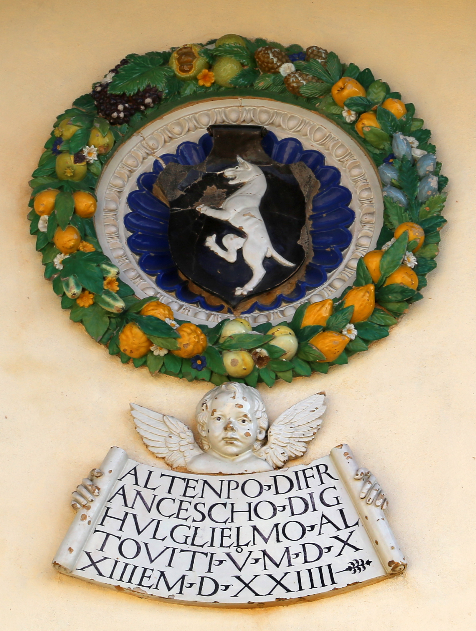 Castello dei Vicari